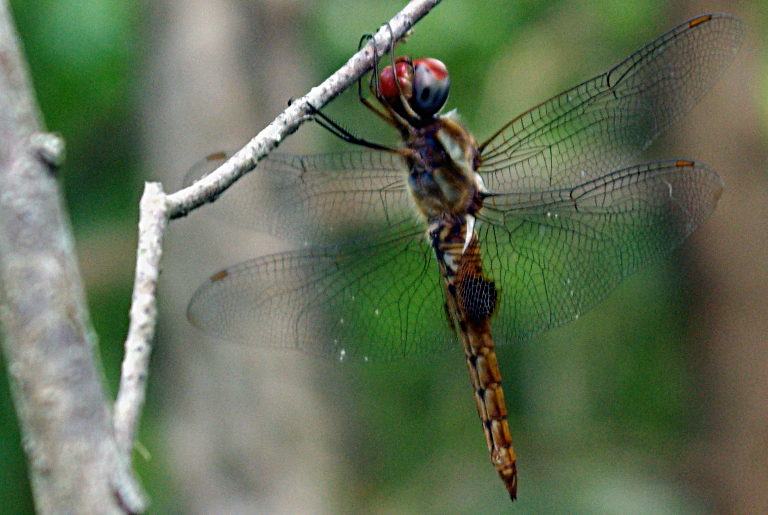 Spot-winged Glider (Pantala hymenaea) in Spring Creek Forest, Garland, Texas.